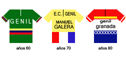 Maillots historia G.D.Genil